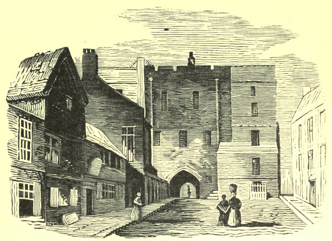 New Gate, Newcastle, England, 1813 - drawing.